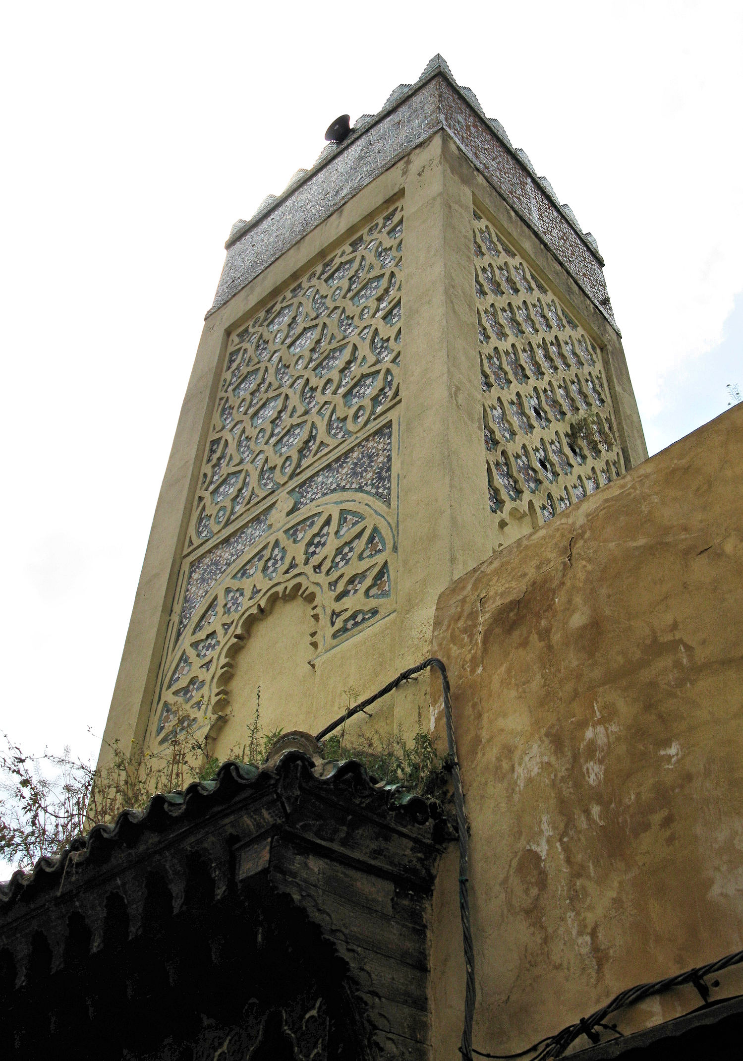 Minaret of Abu al-Hasan Mosque, seen from Tala'a Seghira. (Note: this is a re-edit of "Abu el-hassan mosque minaret.jpg", but I wasn't sure it was right to replace it so I uploaded it separately.)